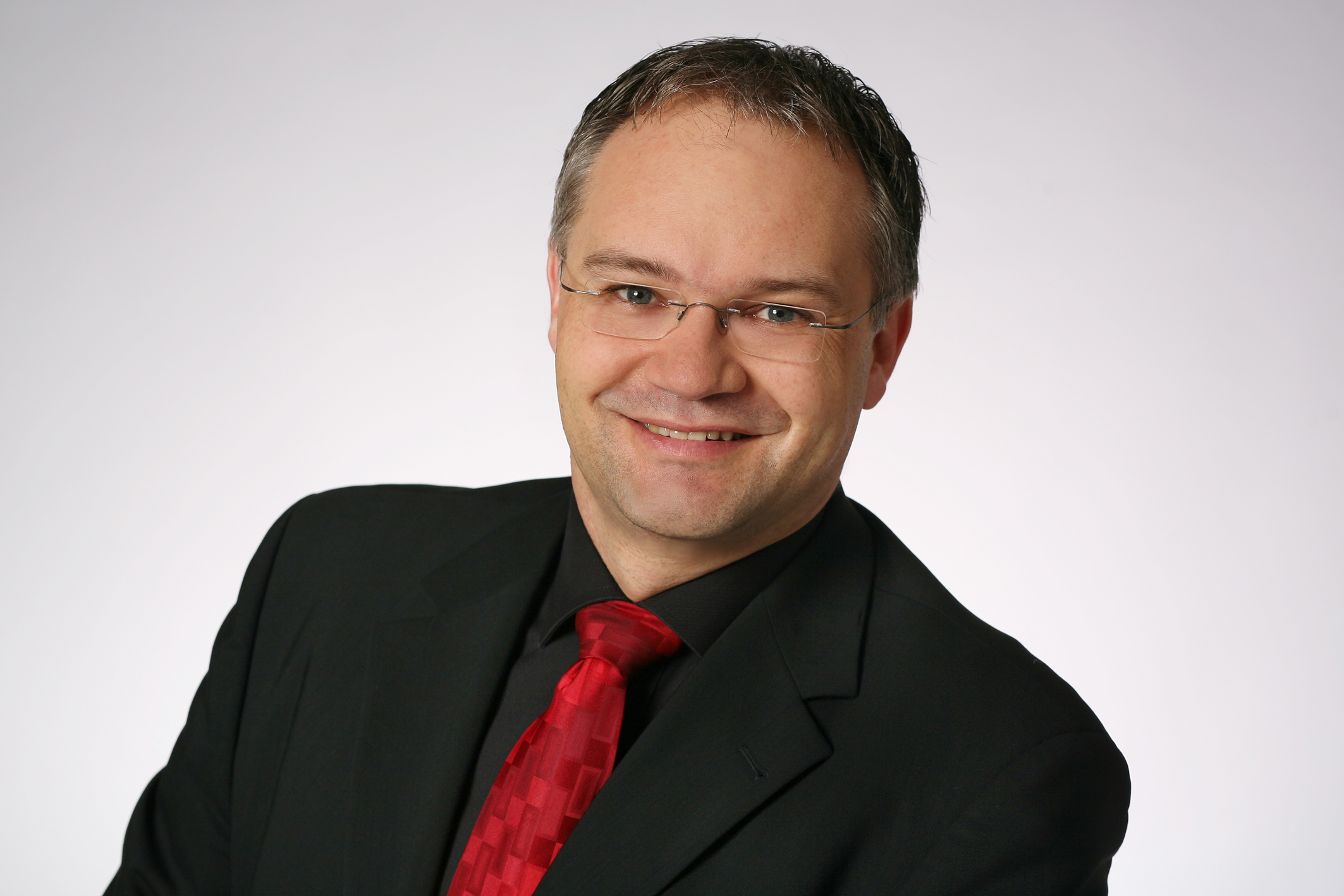 Klaus Tschütscher is a former head of government of the principality of Liechtenstein (2009–2013).